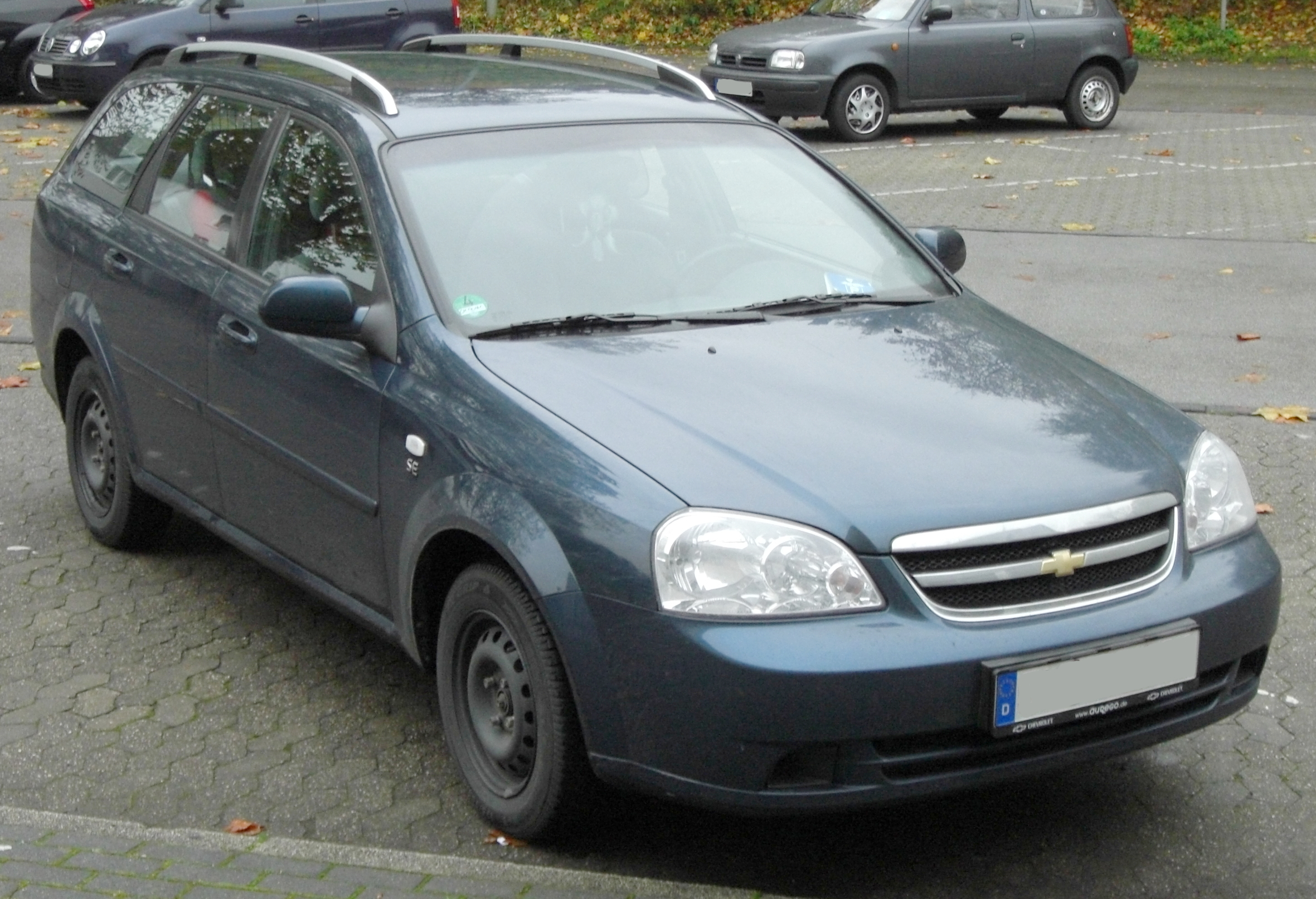 Description: Chevrolet Nubira Kombi Source: Matthias Other Version(s)